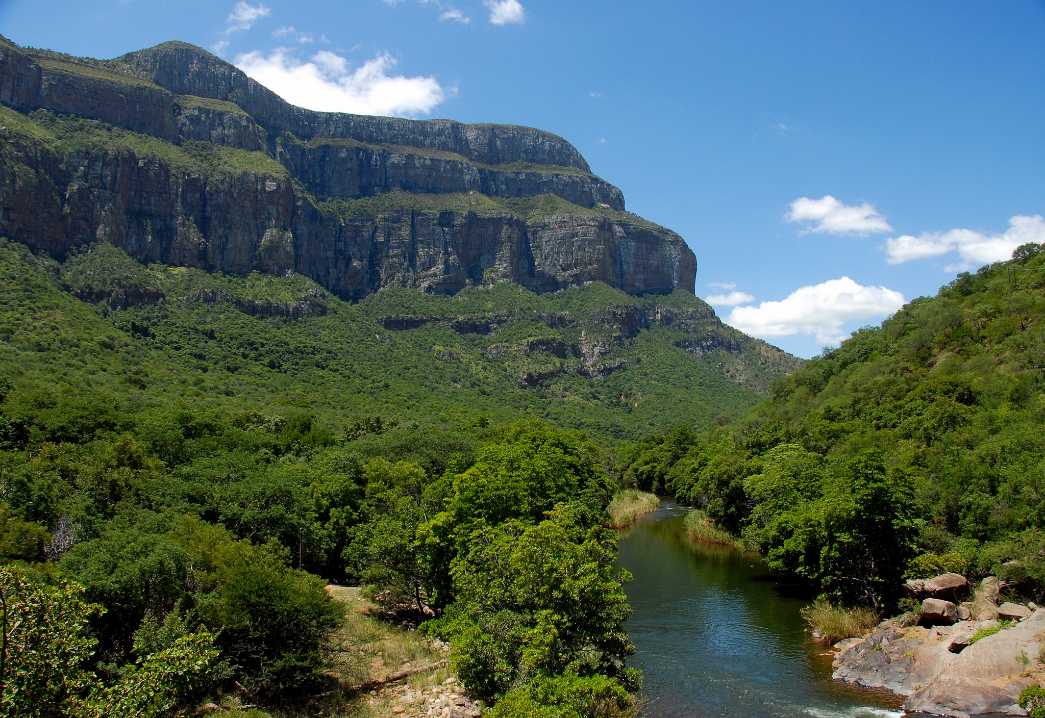 Looking downstream on the Blyde River, flanked by Matumi trees. On its left flank is Tshwateng peak, part of the Mogologolo massif. The viewpoint is near Swadeni resort in the Blyde River Canyon Nature Reserve.